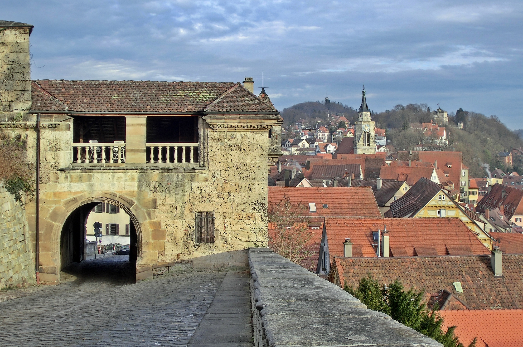 Unteres Schlosstor (lower castle gate) of Hohentübingen castle, Baden-Württemberg.